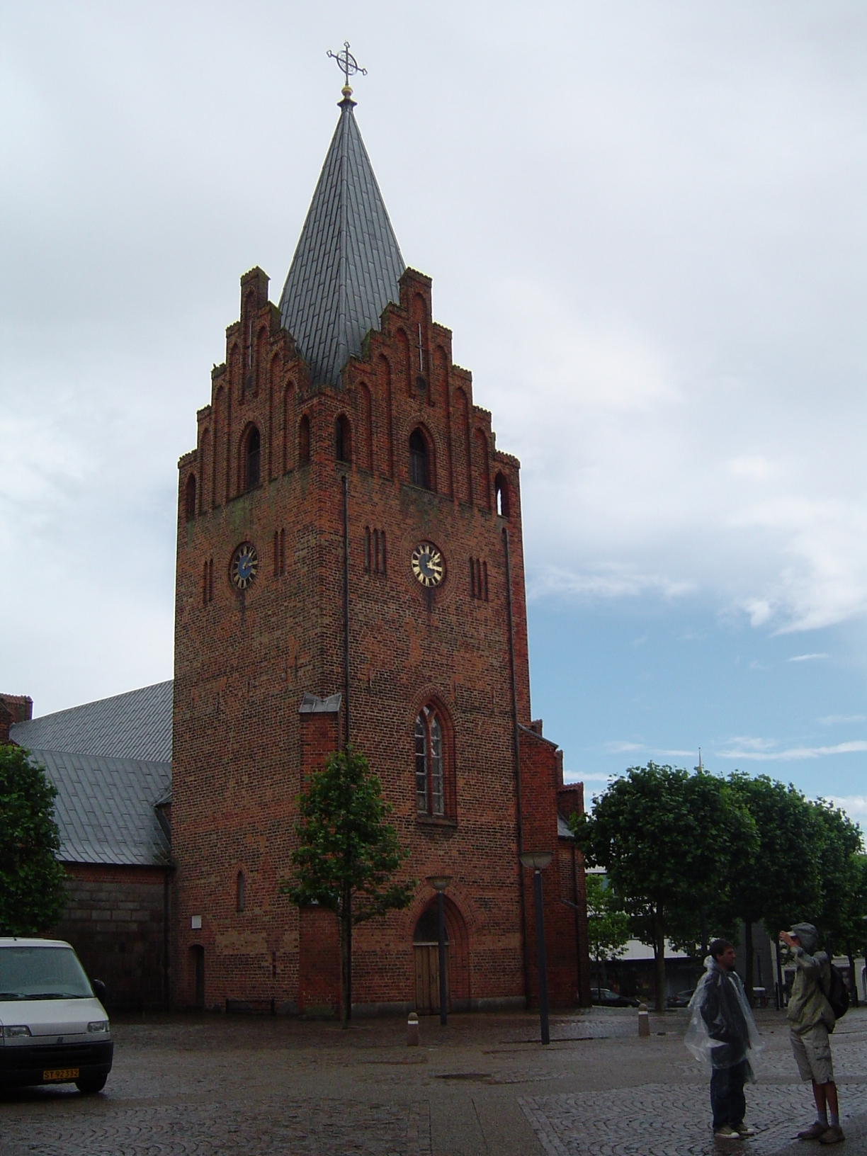 Grenaa church